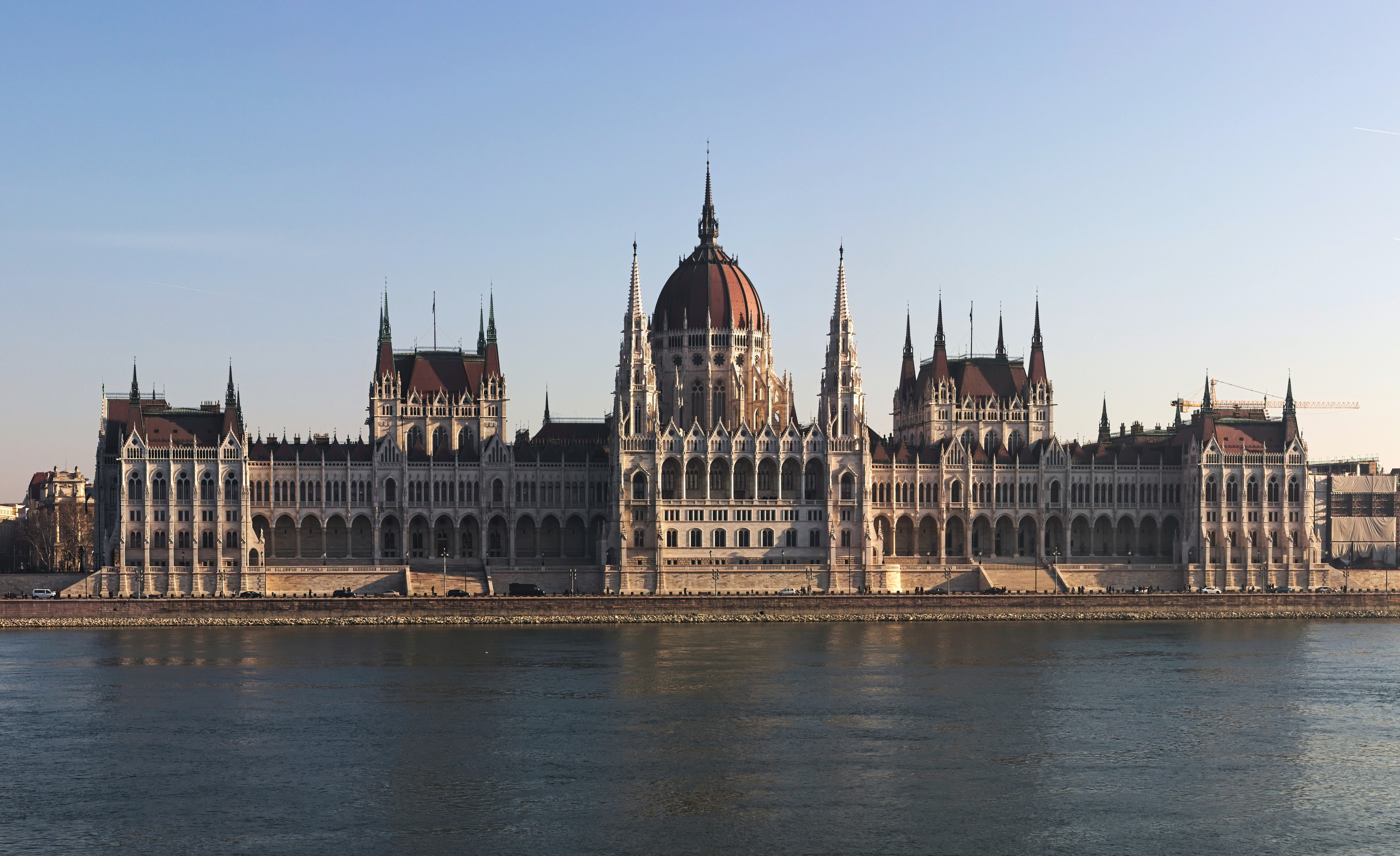 Hungarian Parliament in Budapest.